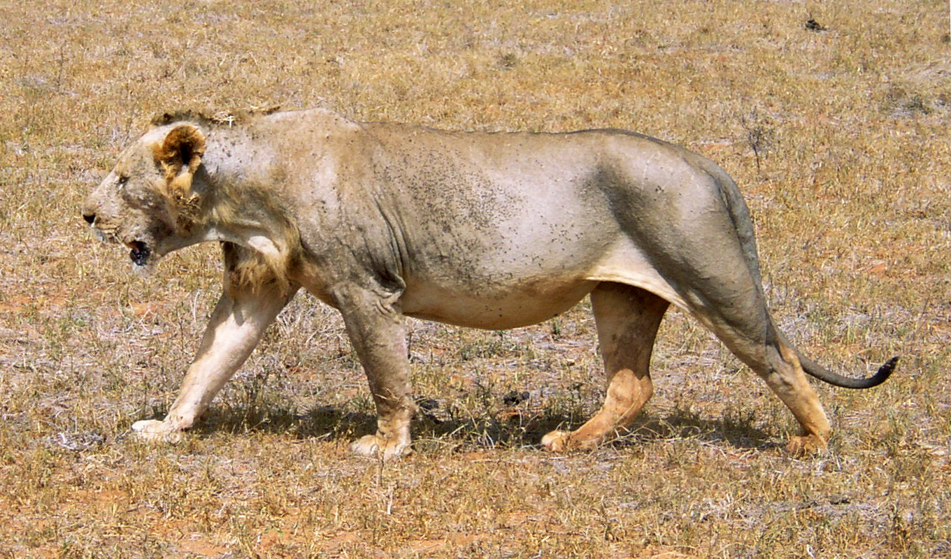 Maneless male lion from Tsavo East National Park, Kenya.Mähnenloses Männchen im East National Park in Kenia.